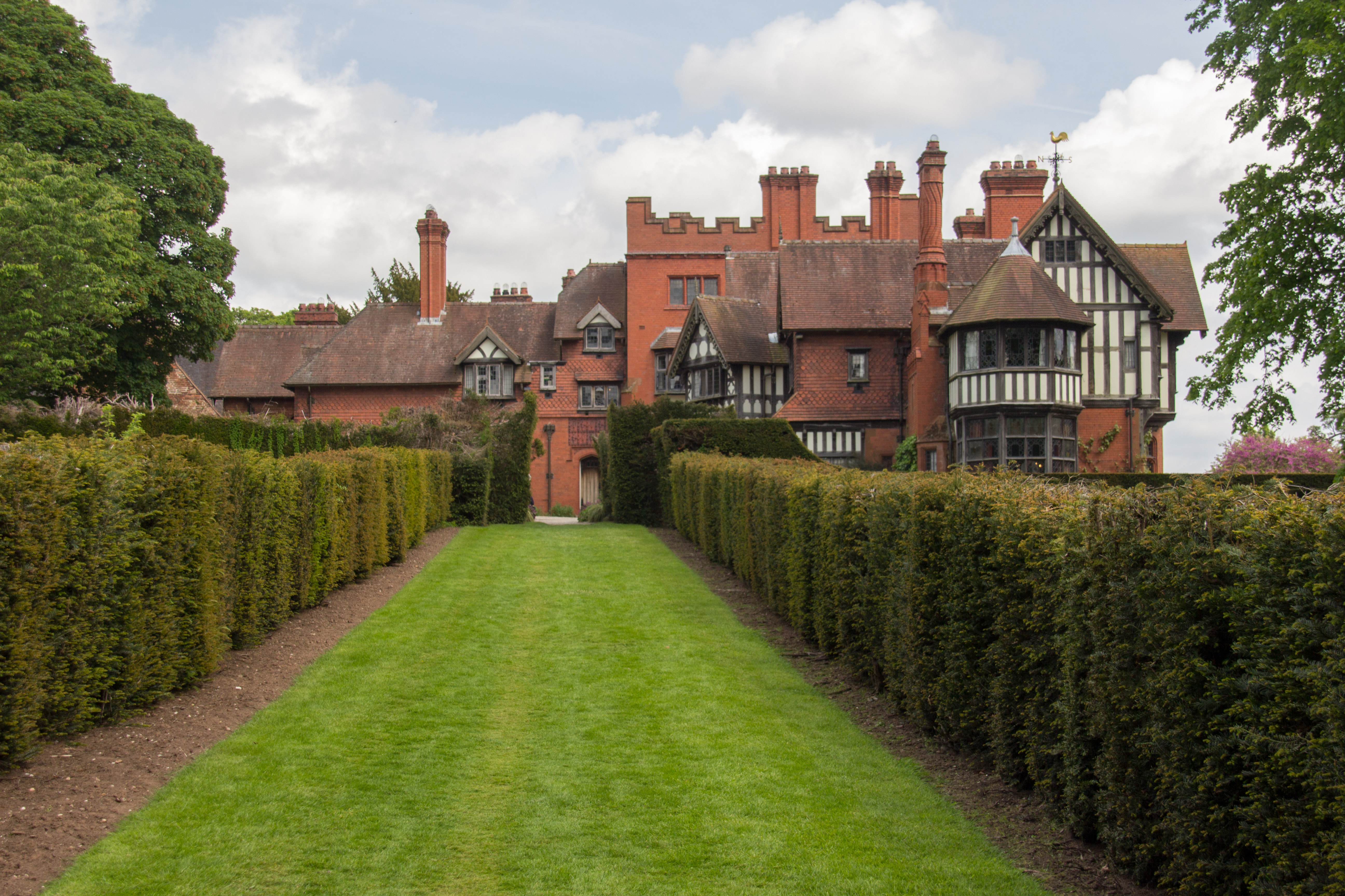 Wightwick Manor, United Kingdom.